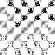 Tabia opening Novoe nachalo in russian checkers.